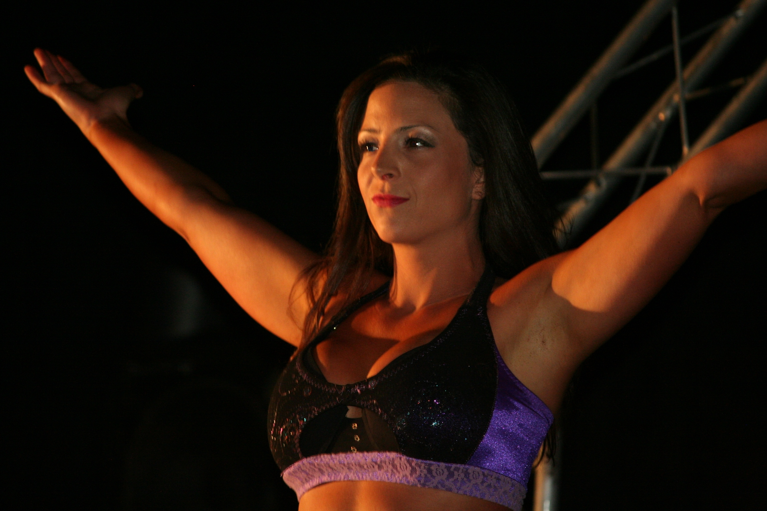 Serena Deeb at a Queens of Combat event in March 2014.